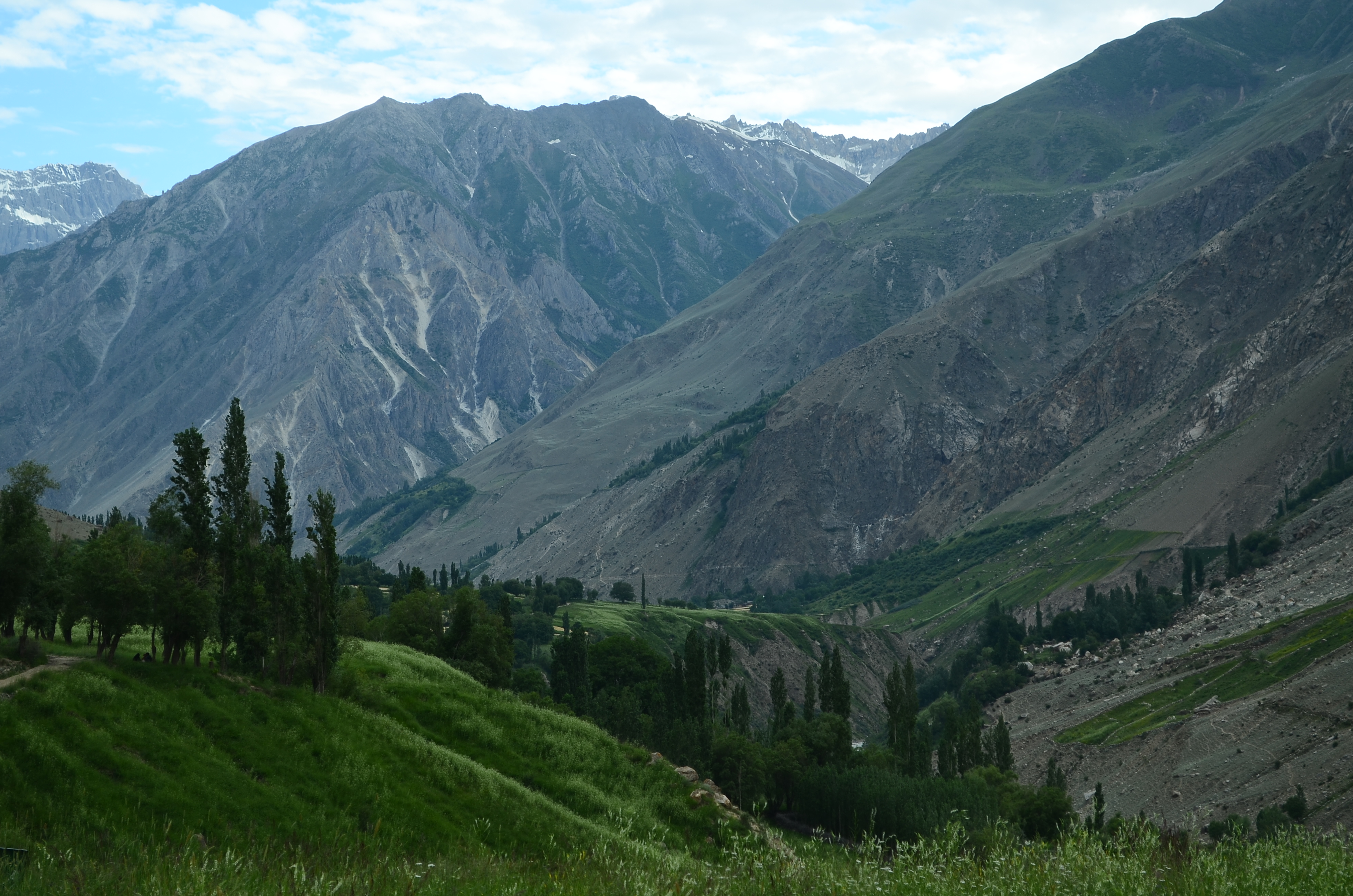 Sesko village, Bhasha valley Shigar